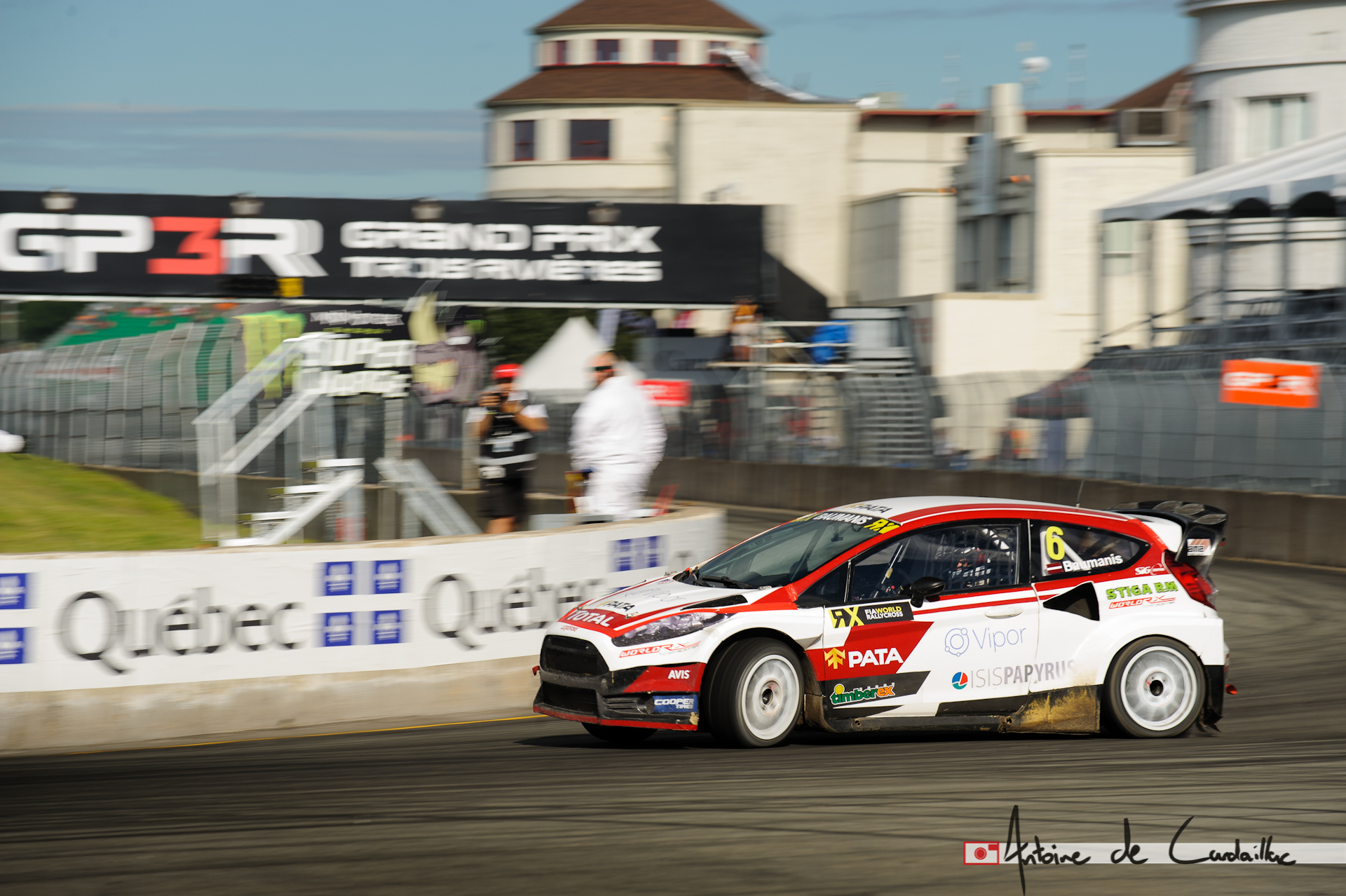 World RallyCross event at the 2016 GP3R (RX)